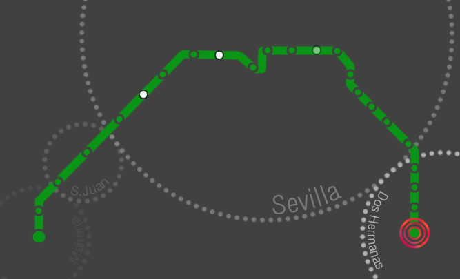 Location